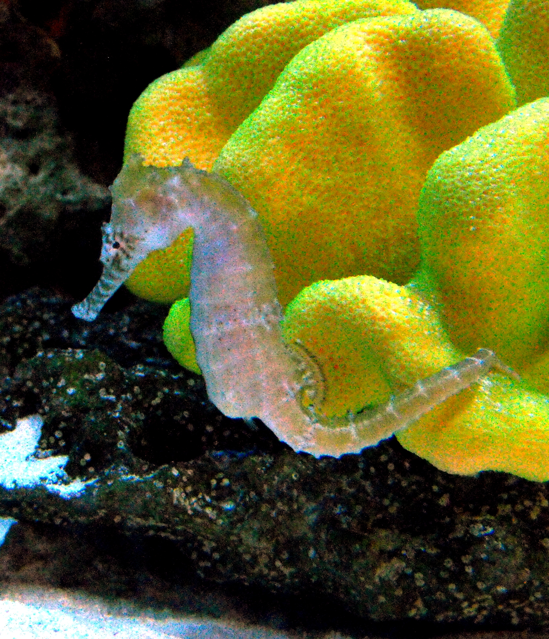 Hippocampus barbouri at the Birch Aquarium, San Diego, California, USA.